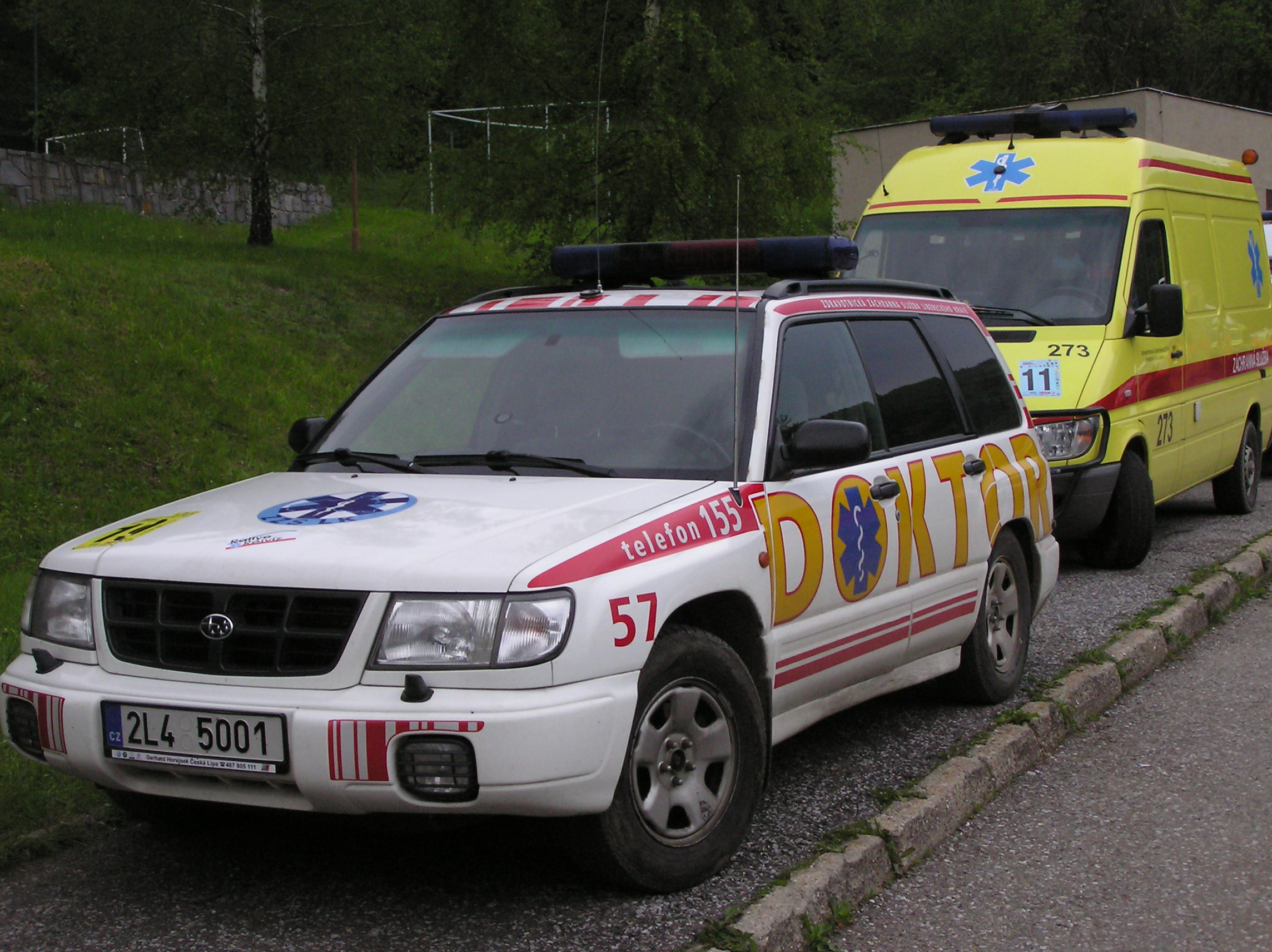 Ambulance vehicle first response unit of the Emergency Medical Services of Liberec Region Czech Republic. Photo was taken during the international competition Rallye Rejvíz 2010 in Kouty nad Desnou, Czec Republic